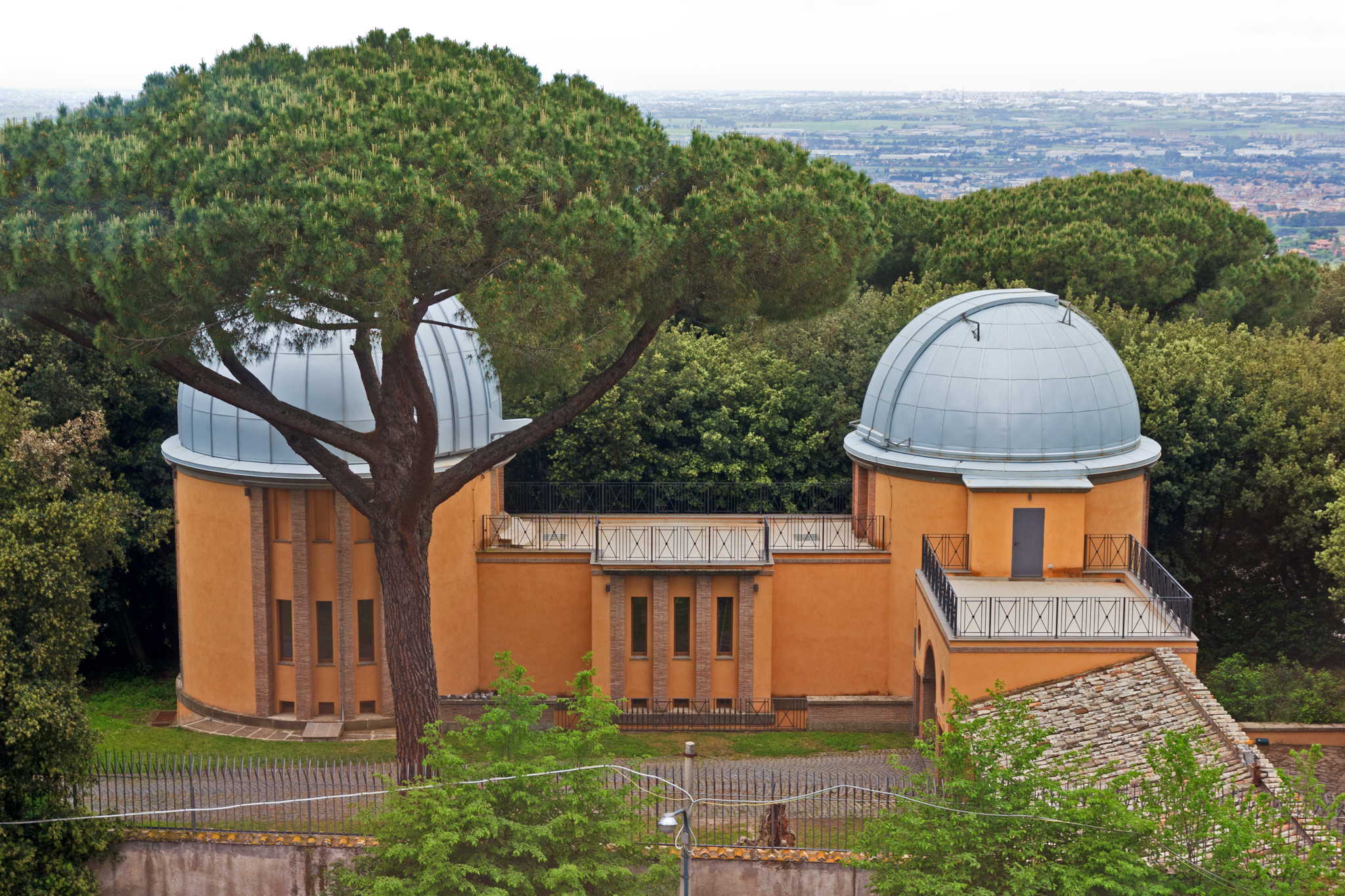 Two domes of the Vatican observatory, located in the pontifical gardens of Villa Barberini. The smaller dome (right) was built in 1941, when the "Carte du Ciel" telescope, that was installed in the Vatican in 1891, was moved to Castel Gandolfo due to the increasing light pollution in Rome. The Vatican Observatory was one of about 20 obseravtories around the world that cooperated in the "Carte du Ciel" project , with the goal of mapping the whole sky on photographic plates that were taken trough identical telescopes. These "Carte du Ciel" telescopes consist of a 13" photographic lens with a focal length of 343 cm (resulting in an image scale of 1'/mm) and 8" refractor with 360 cm focal length, used as guide scope, on a common English equatorial mount. The larger dome was built in 1954 for a 65/98/240 cm Schmidt telescope that arrived in Castel Gandolfo in 1957. Using 20x20cm² glass plates, photos taken with this Schmidt telescope covered an area of 5°x5° in the sky, more than six times larger than the field of the "Carte du Ciel" astrograph. For spectrography, objectiv prisms could be mounted at the aperture of the telescope, which then recorded low-resolution spectre of all objects in the field.